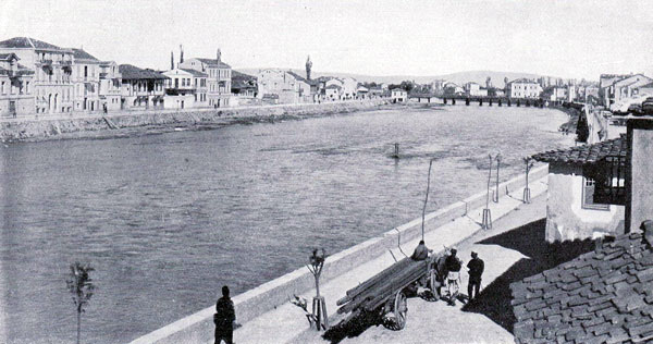 Skopje (Photo: Hugo Grothe, 1913 )